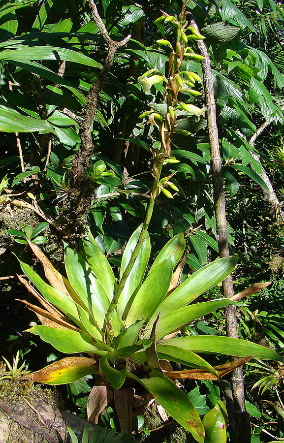 Native from Costa Rica and Nicaragua, photo from Volcan Mombacho in the latter. In context at